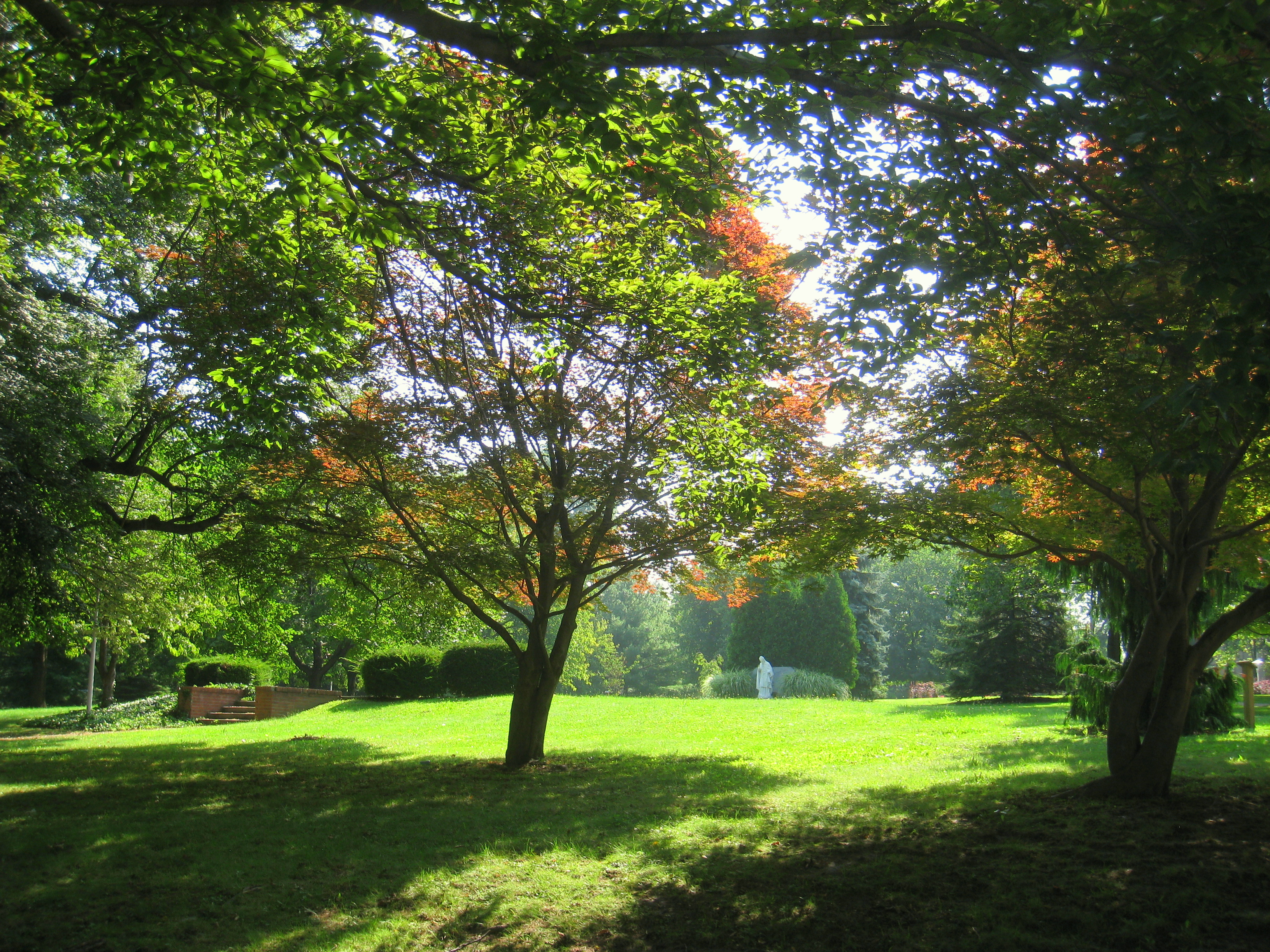 Marywood University Arboretum, Marywood University, Scranton, Pennsylvania, USA.